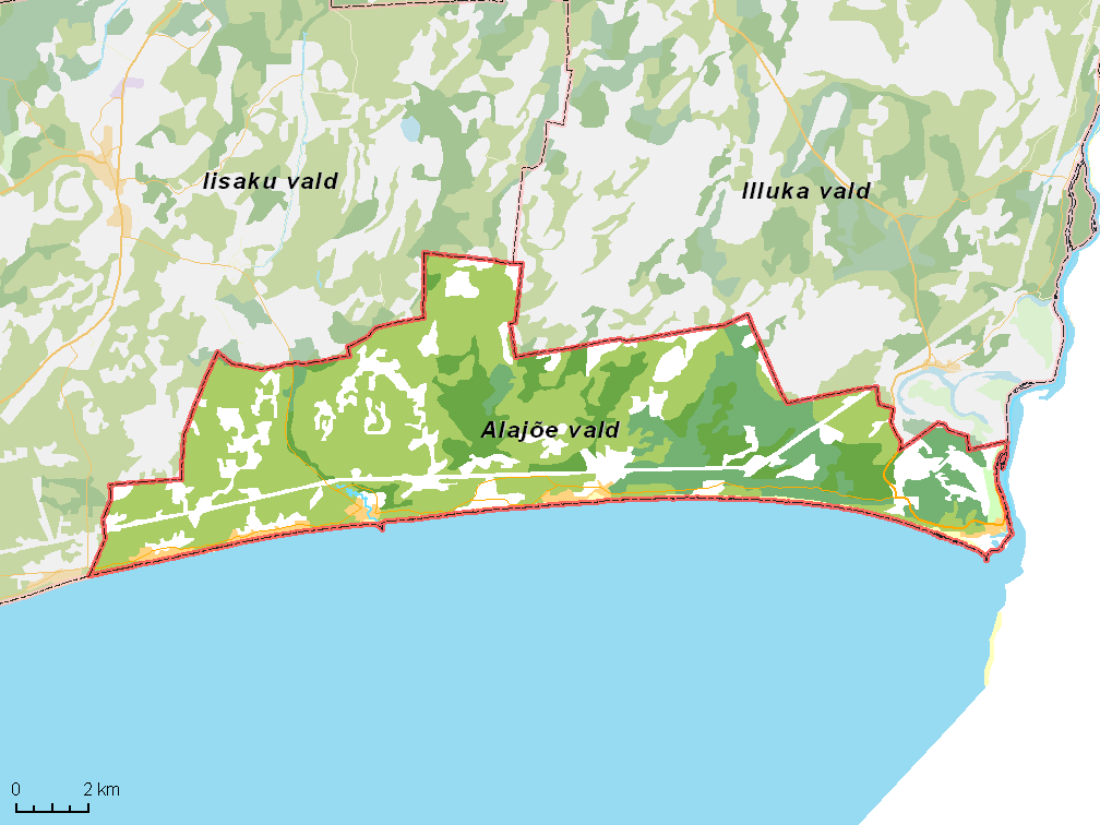 Map of municipality in Estonia